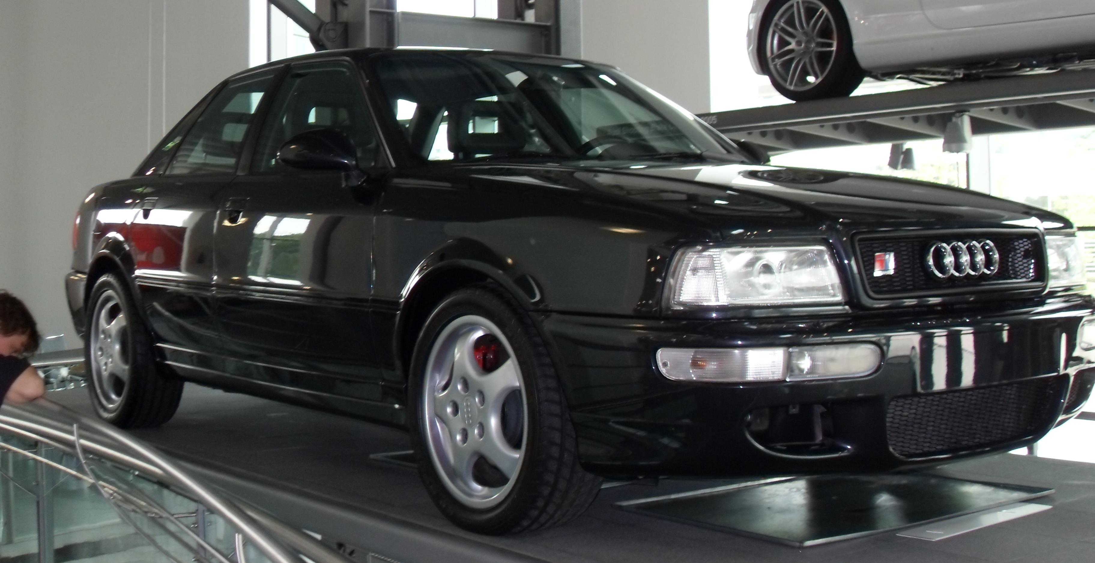 Audi RS2 Sedan